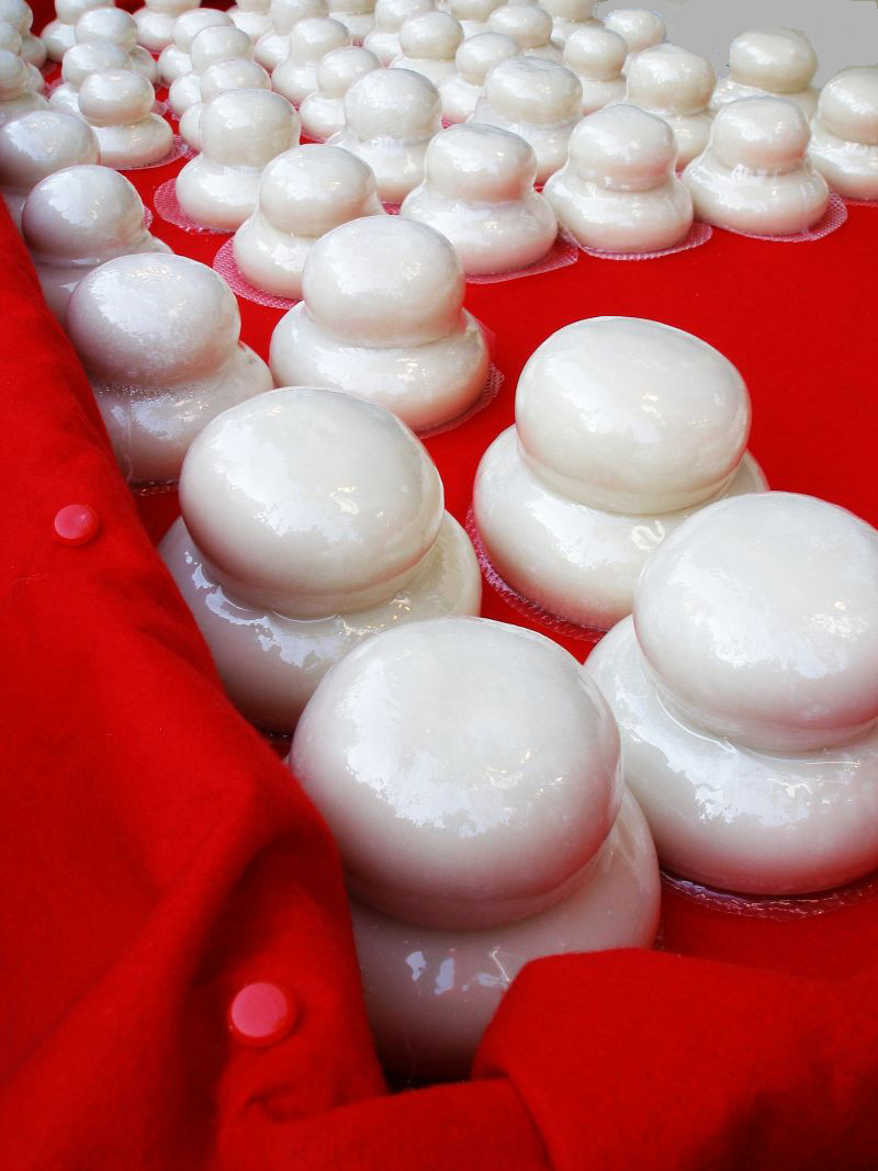 Kagami mochi (鏡餅), literally mirror rice cake, a traditional Japanese New Year decoration.